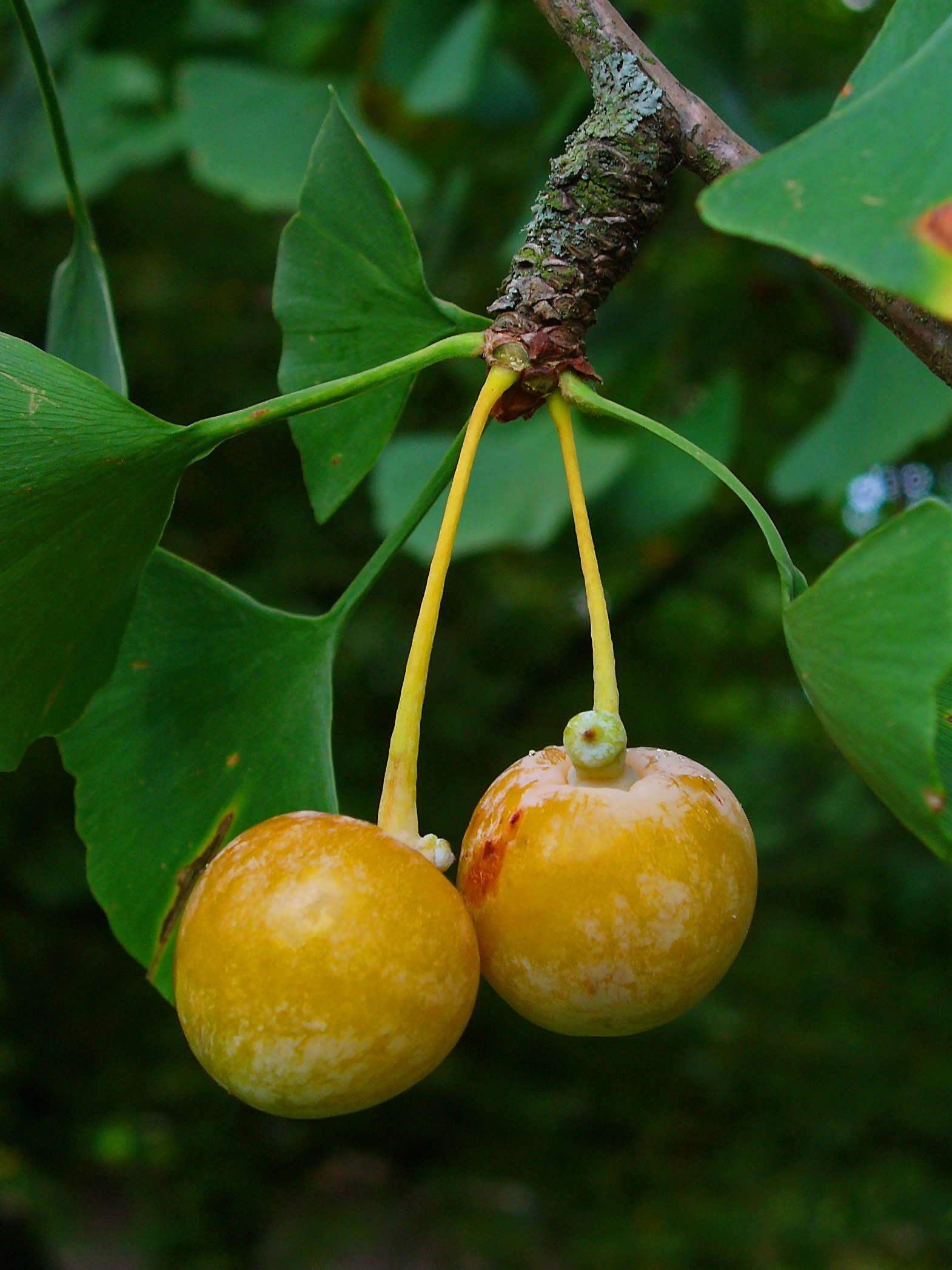 Ginkgo biloba, Ginkgoaceae, Ginkgo, fruits; Karlsruhe, Germany. The fresh leaves are used in homeopathy as remedy: Ginkgo biloba (Gink-b.)